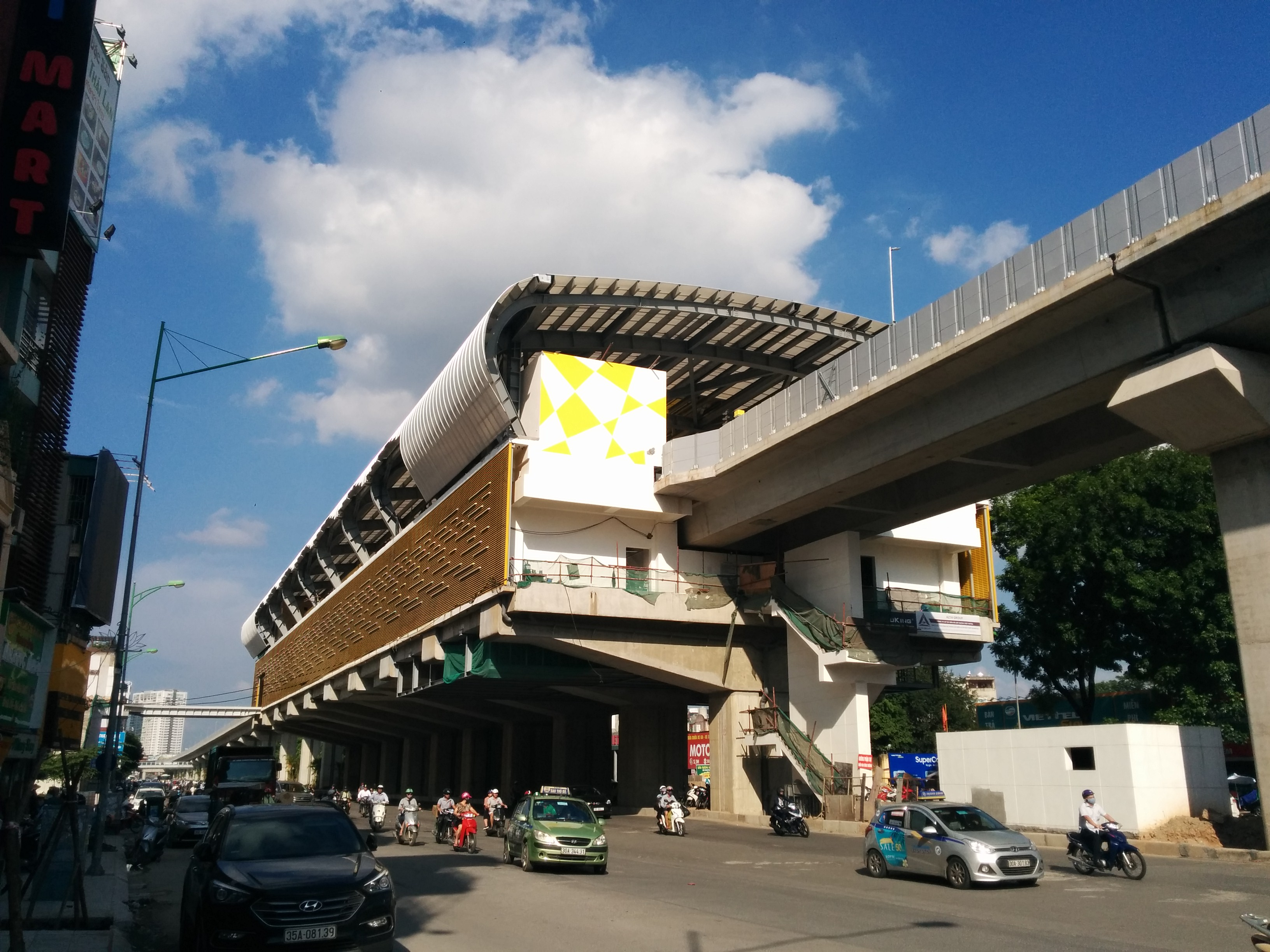 Shot from street